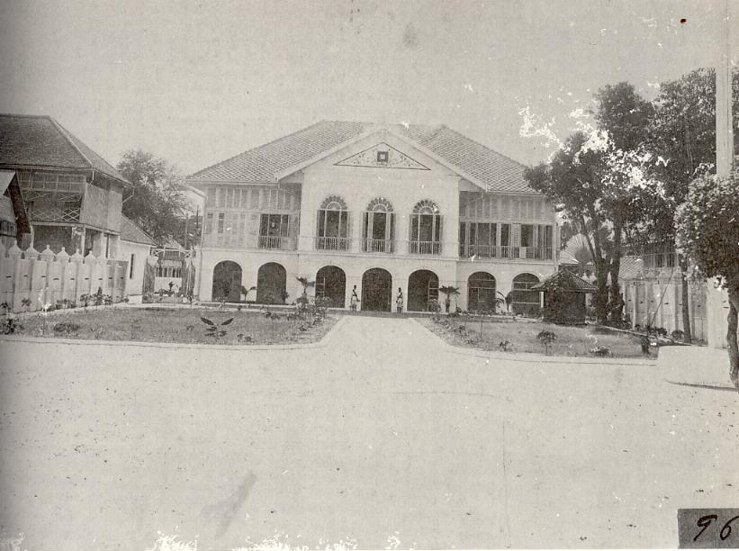 The main building (now the ambassador's residence) of the Portuguese Legation in Bangkok, 1918. Original caption: Edifício onde está instalada a Legação de Portugal em Banguecoque. Vê-se o jardim, a fachada do edifício e, do lado direito, uma grande gaiola–1918 (Foto do Arquivo Histórico de Macau)